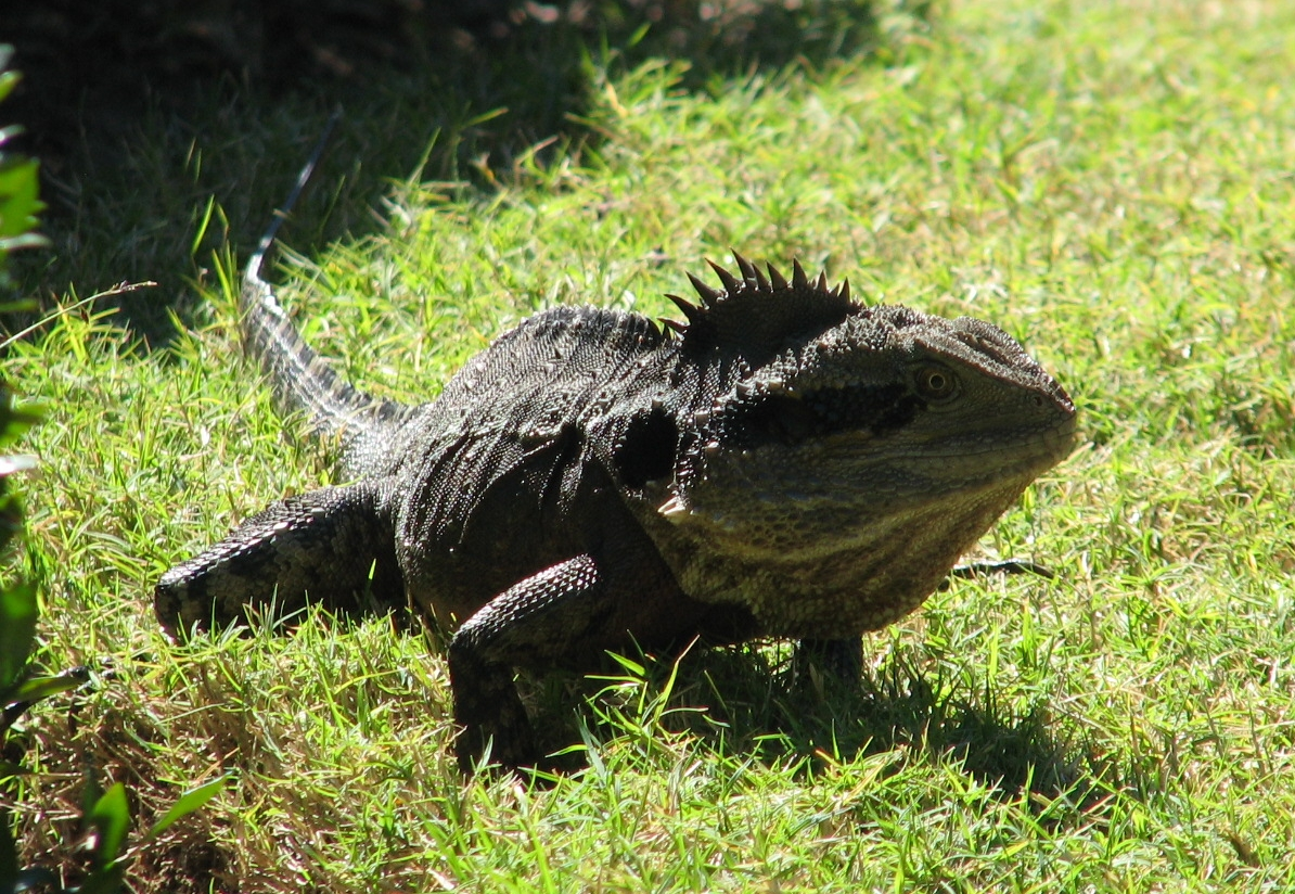 Water Dragon found in Central Queensland, Australia